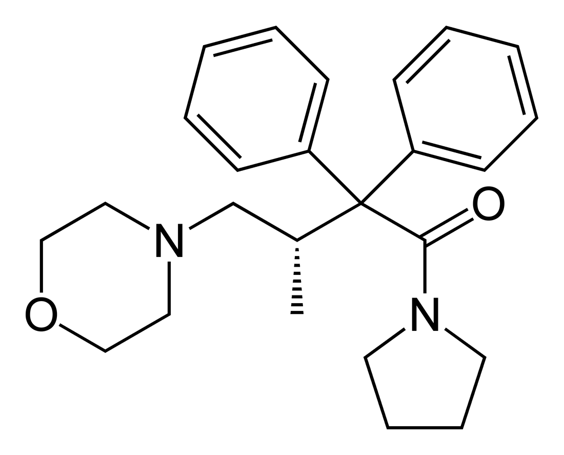 Skeletal formula of the dextromoramide molecule, C25H32N2O2